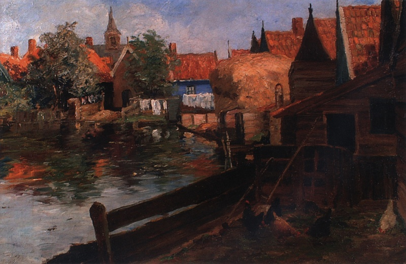 Volendam, gezicht op het Brijkje